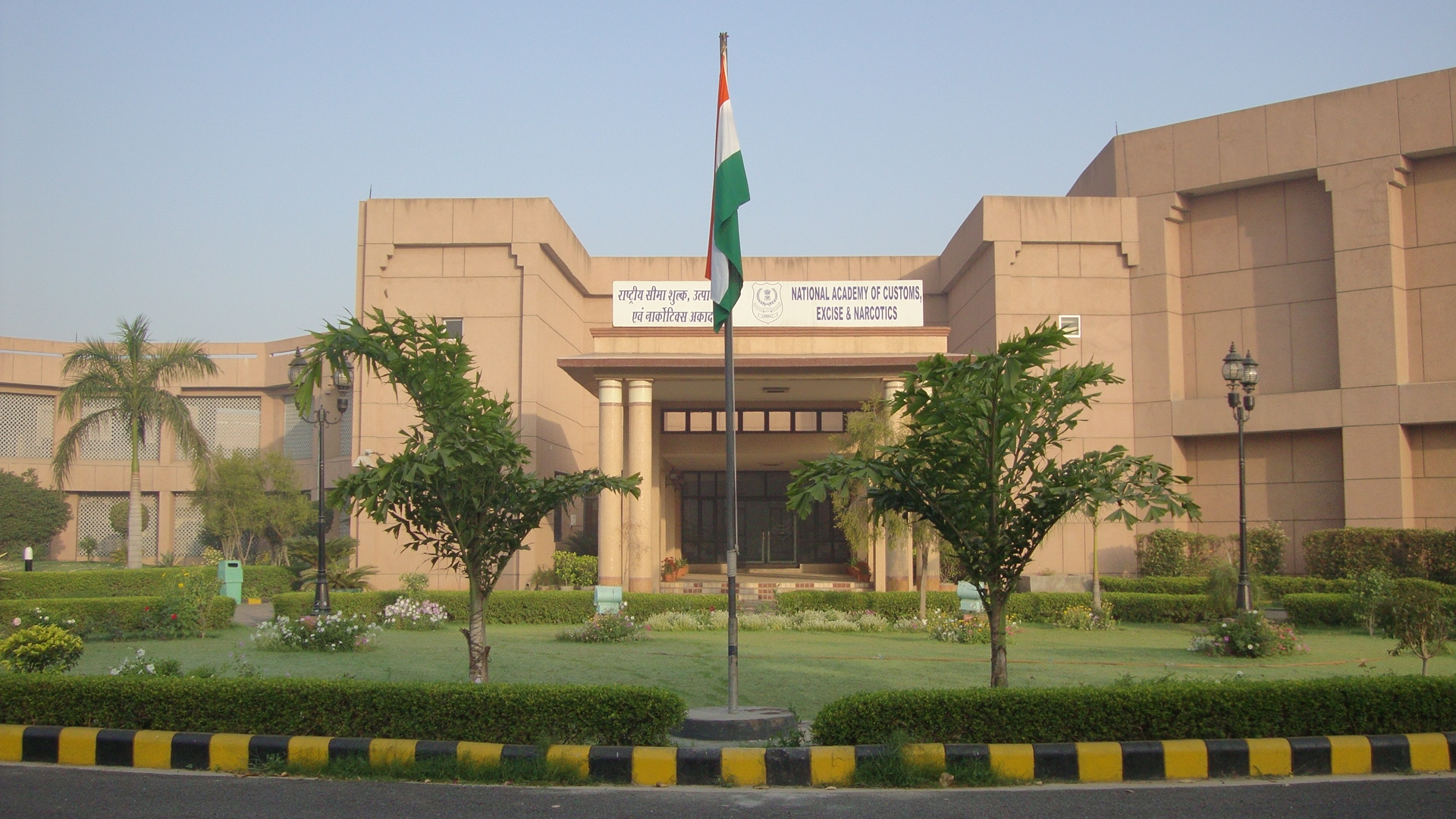 National Academy of Customs, Excise and Narcotics, Faridabad, India